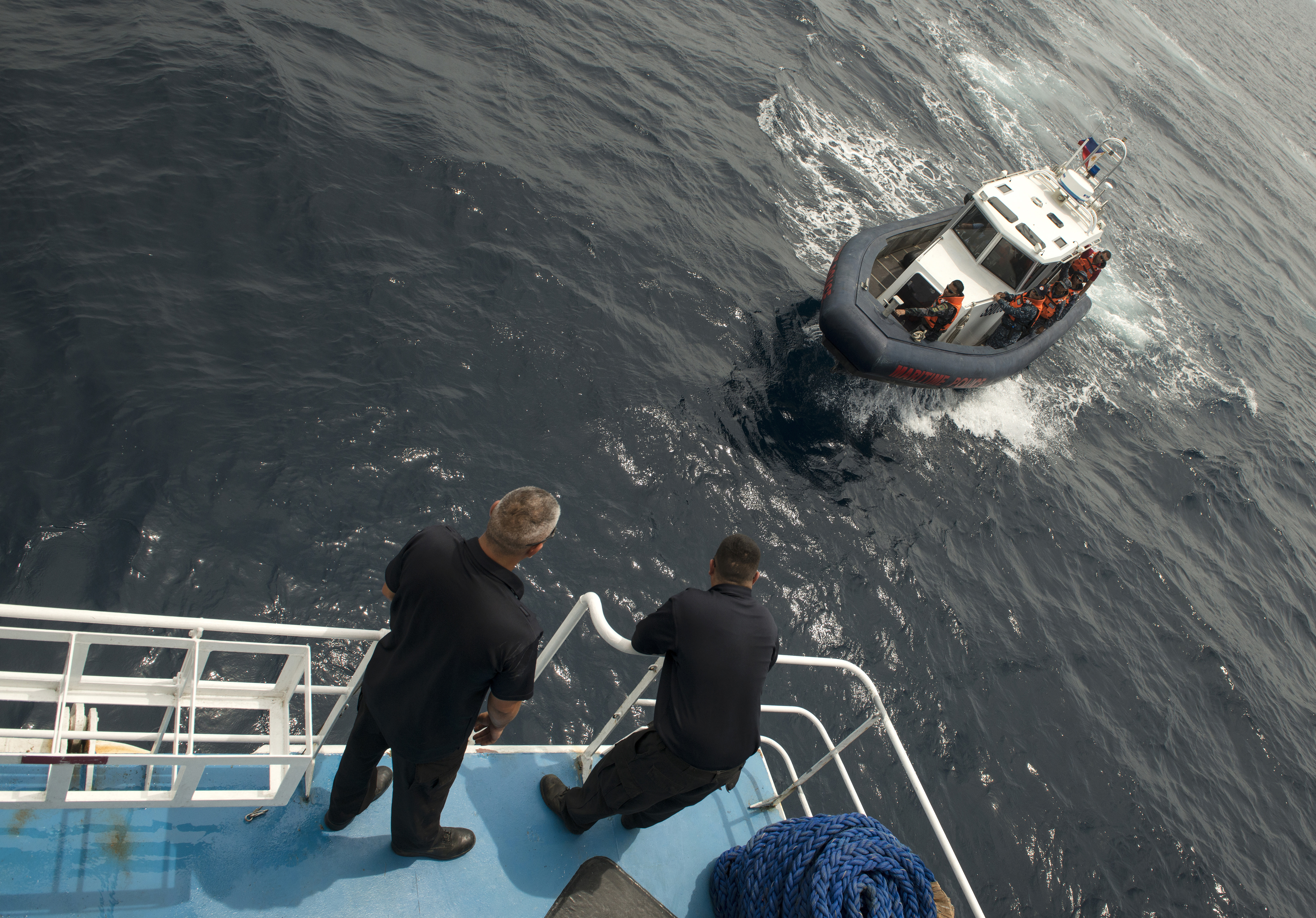 U.S. Navy Reserve Master-at-arms 2nd Class Keith Pona and U.S. Navy Reserve Construction Mechanic 1st Class Steve Miller, both Joint Interagency Task Force (JIATF) West Integrated Maritime Skills team instructors, role play the part of ship crewmember as members of the Philippine Coast Guard and Philippine National Police (PNP) Maritime Group prepare to board during a boat inspection training scenario as part of the JIATF West exercise Aug. 5, 2014, in Palawan, Philippines. Philippine Coast Guardsmen and Maritime Police Officers worked together to board and search simulated vessels while ensuring the safety of team members. The participants received training instruction from members of the JIATF West Integrated Maritime Skills team. The mission of JIATF West is to reduce threats in the Asia-Pacific region by combating drug related transnational organized crime. (U.S. Air Force photo by Staff Sgt. Christopher Hubenthal)